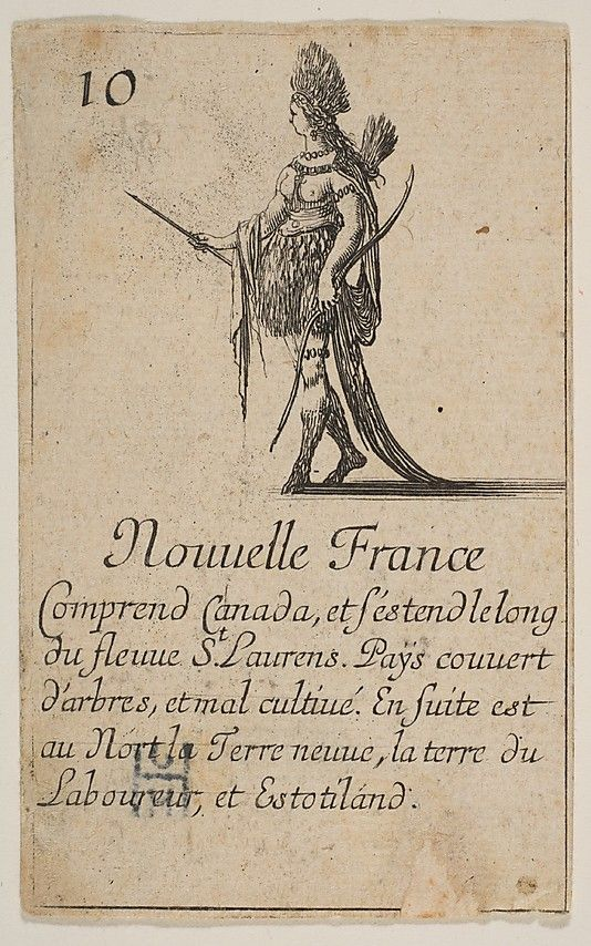 New France, from 'Game of Geography' (Jeu de la Géographie) « Cardinal Jules Mazarin commissioned these playing cards for the young French King Louis XIV to teach him geography. Etched by a renowned Italian printmaker living in Paris, each card includes an allegorical rendering of a place along with a short text describing its land and people. »